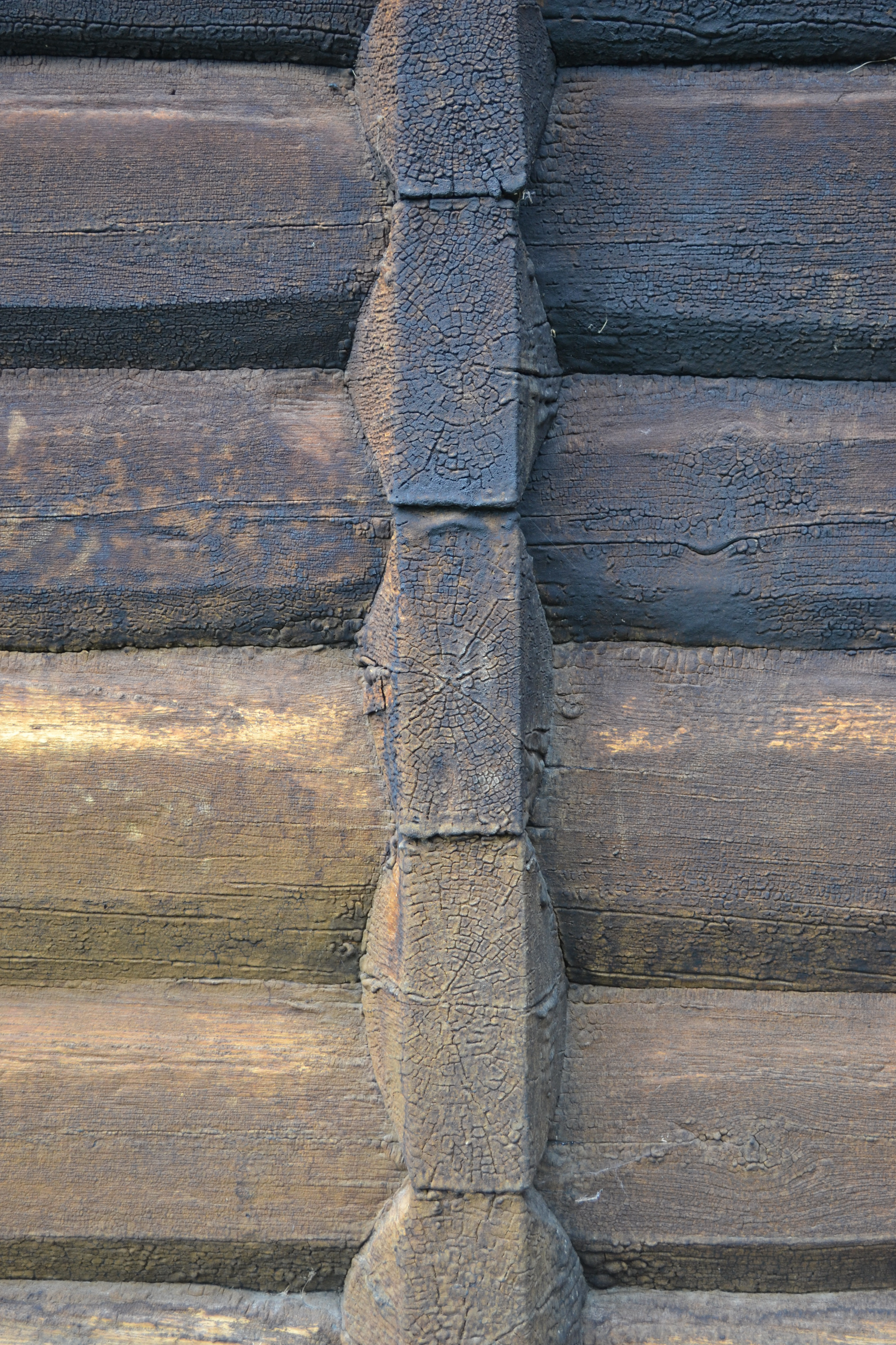 Log construction in a 17th century addition to the Lom stave church, Norway